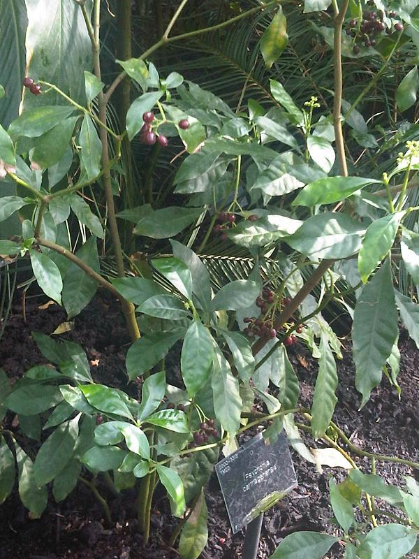 Psychotria carthagenensis in Kew Gardens, England.